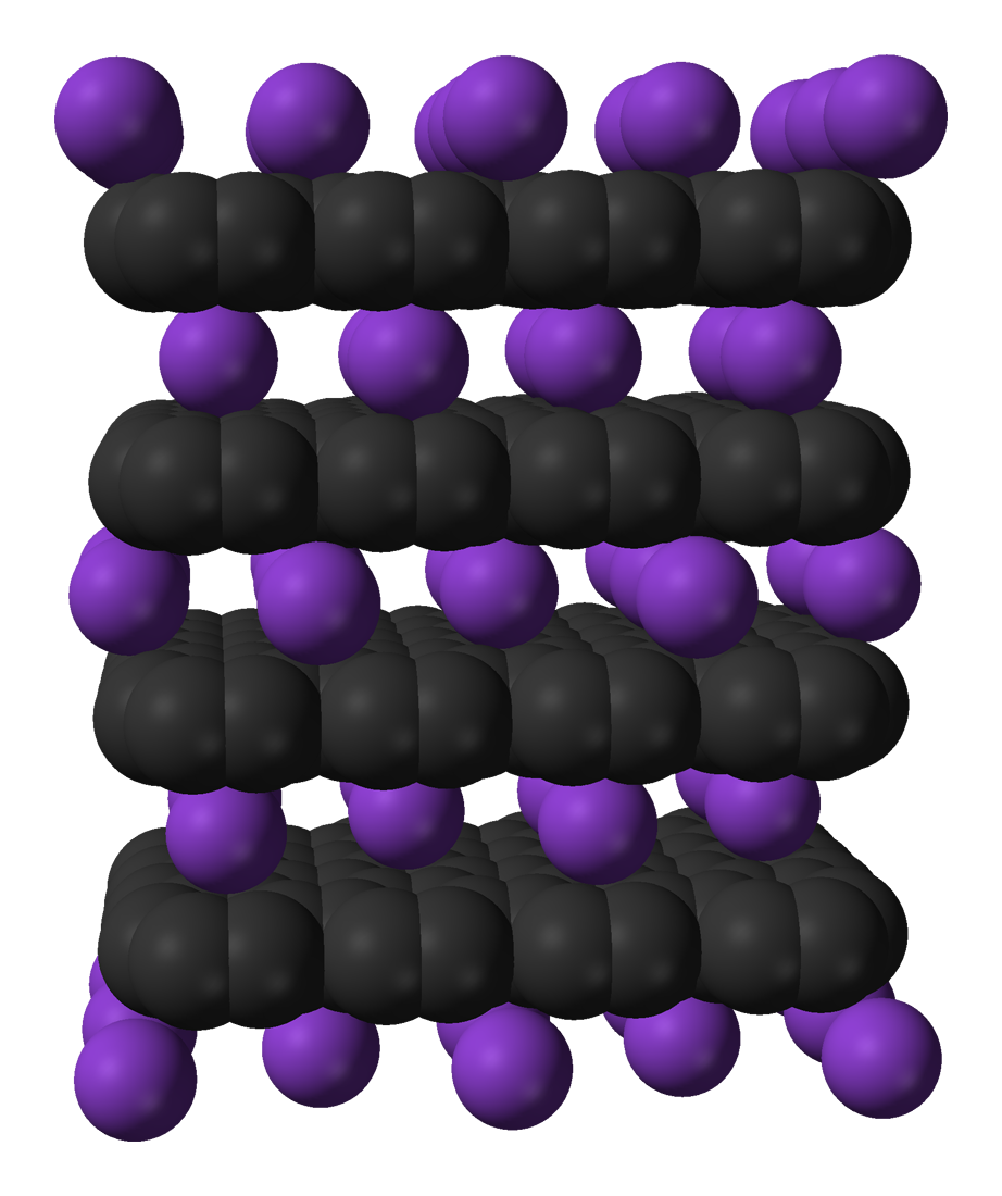 Space-filling model part of the crystal structure of potassium graphite, KC8. X-ray crystallographic data from P. Lagrange, D. Guerard, A. Herold (1978). "Sur la structure du composé KC8". Annales de Chimie: 143-159. Image generated in Accelrys DS Visualizer.